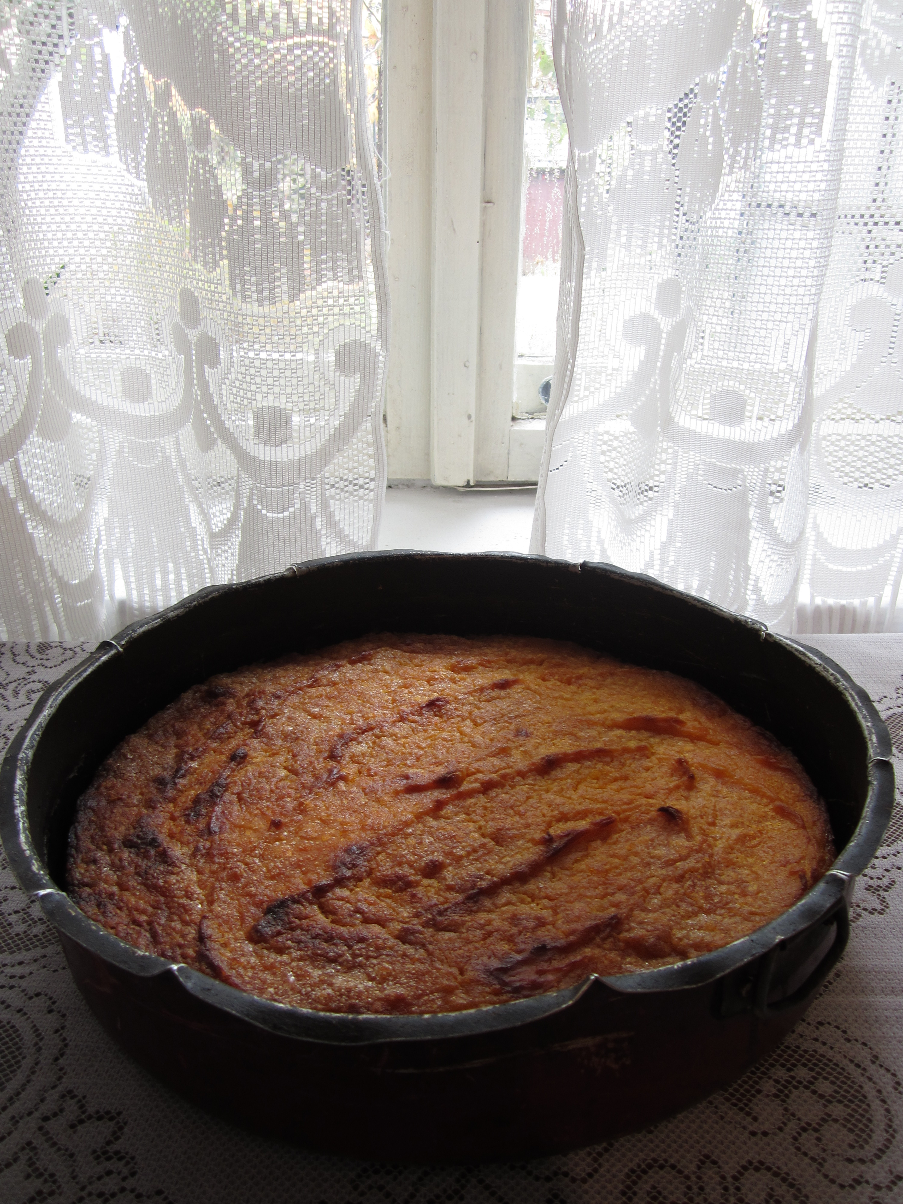 Tikvarnik is made of pumpkin, milk and sugar.